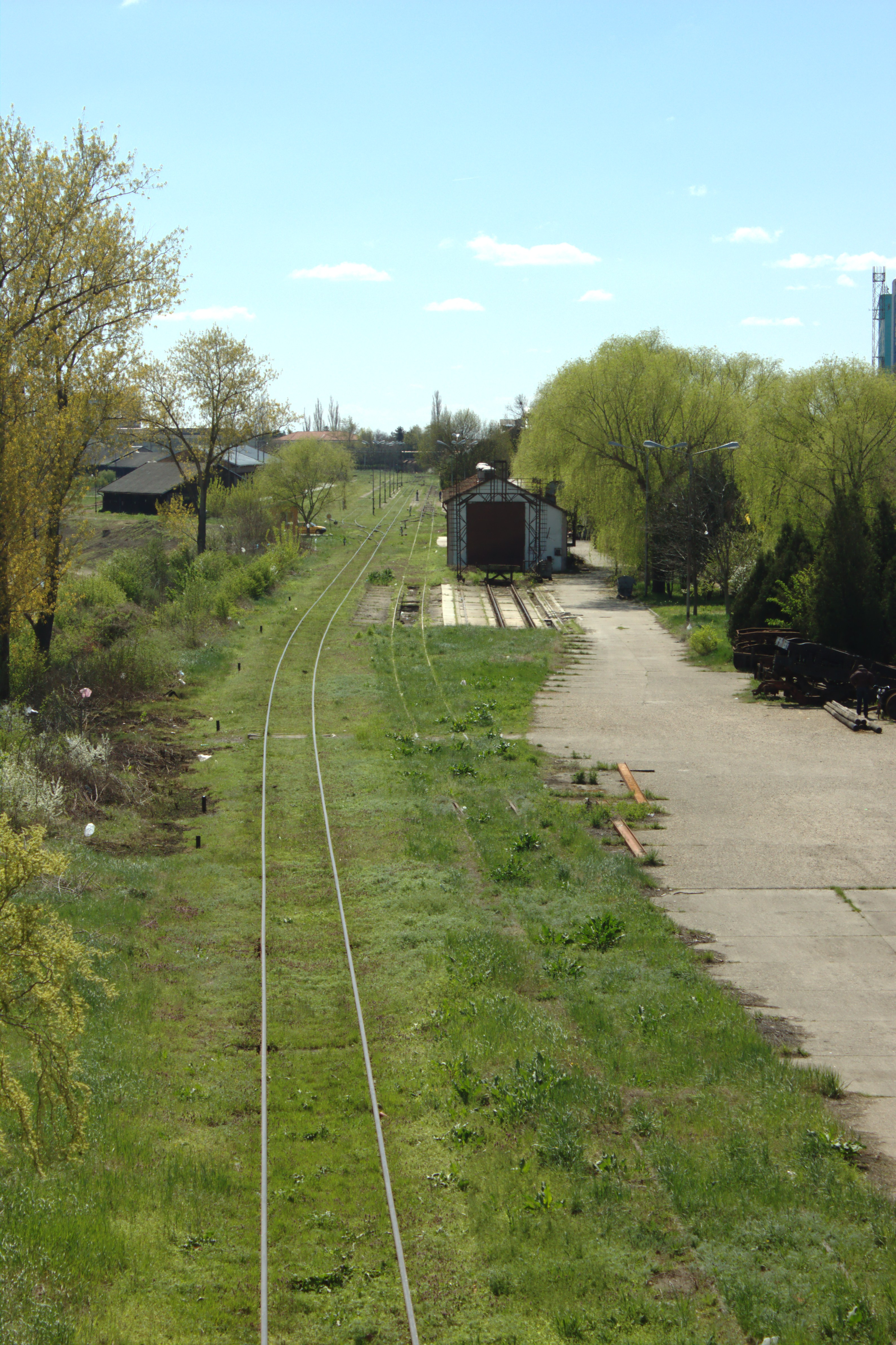 A rail track in the western part of the city of Zrenjanin, Serbia